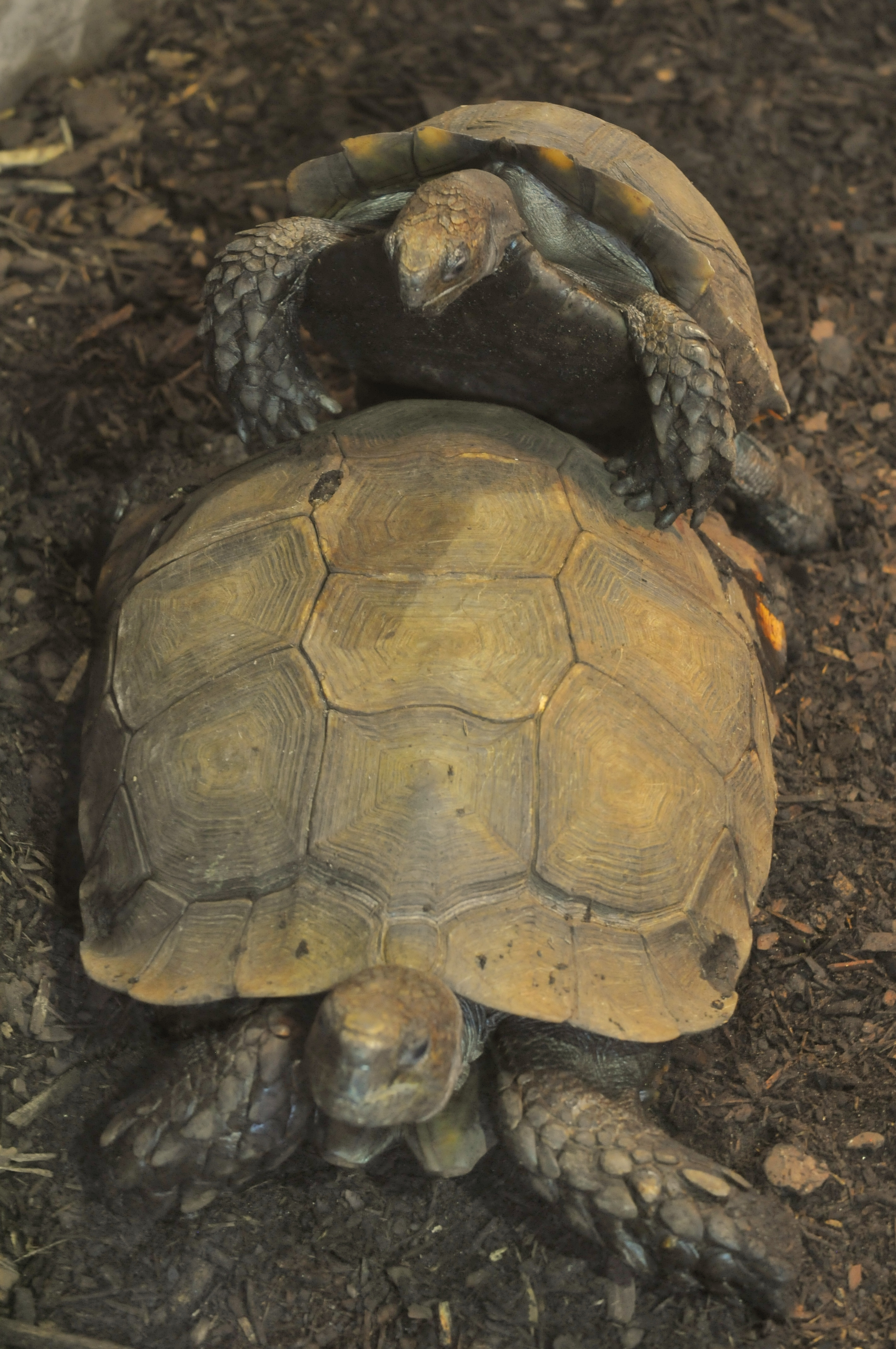 Asian Forest Tortoise at Toronto Zoo, Ontario, Canada.